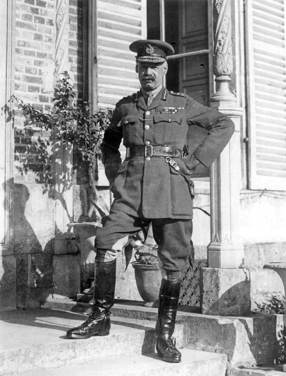 British Army General Henry Rawlinson at his Fourth Army headquarters at Querrieu Chateau.